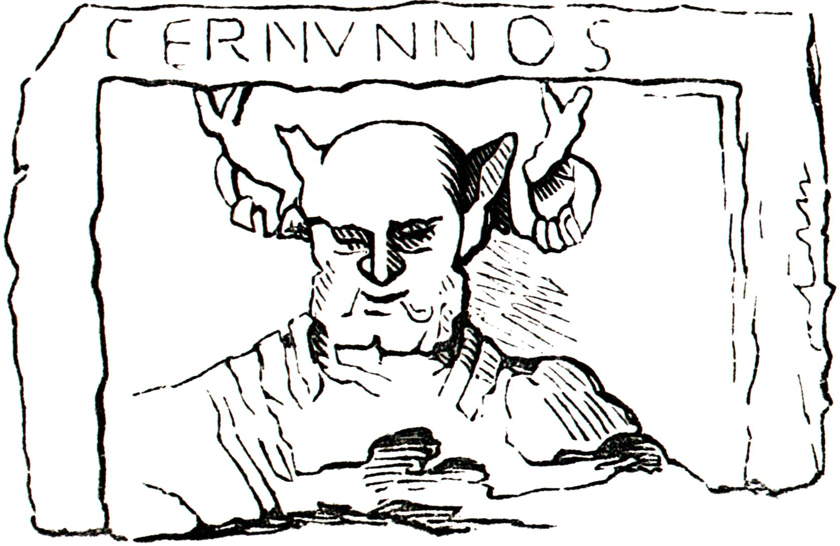 Cernunnos “[...] Under the church of Notre Dame, at Paris, were found in the last century two bas-reliefs of Celtic deities, the one Cerunnos (Fig. 11), the other Hesus (Fig. 12), corresponding to the Roman Mars.”